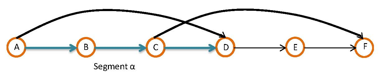 segment example